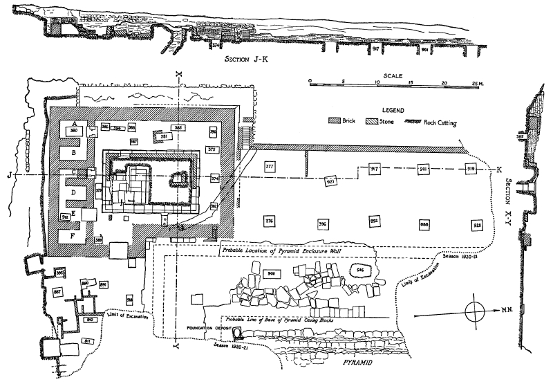 Area at the west side of the Pyramid of Amenemhat I, XII dynasty level.